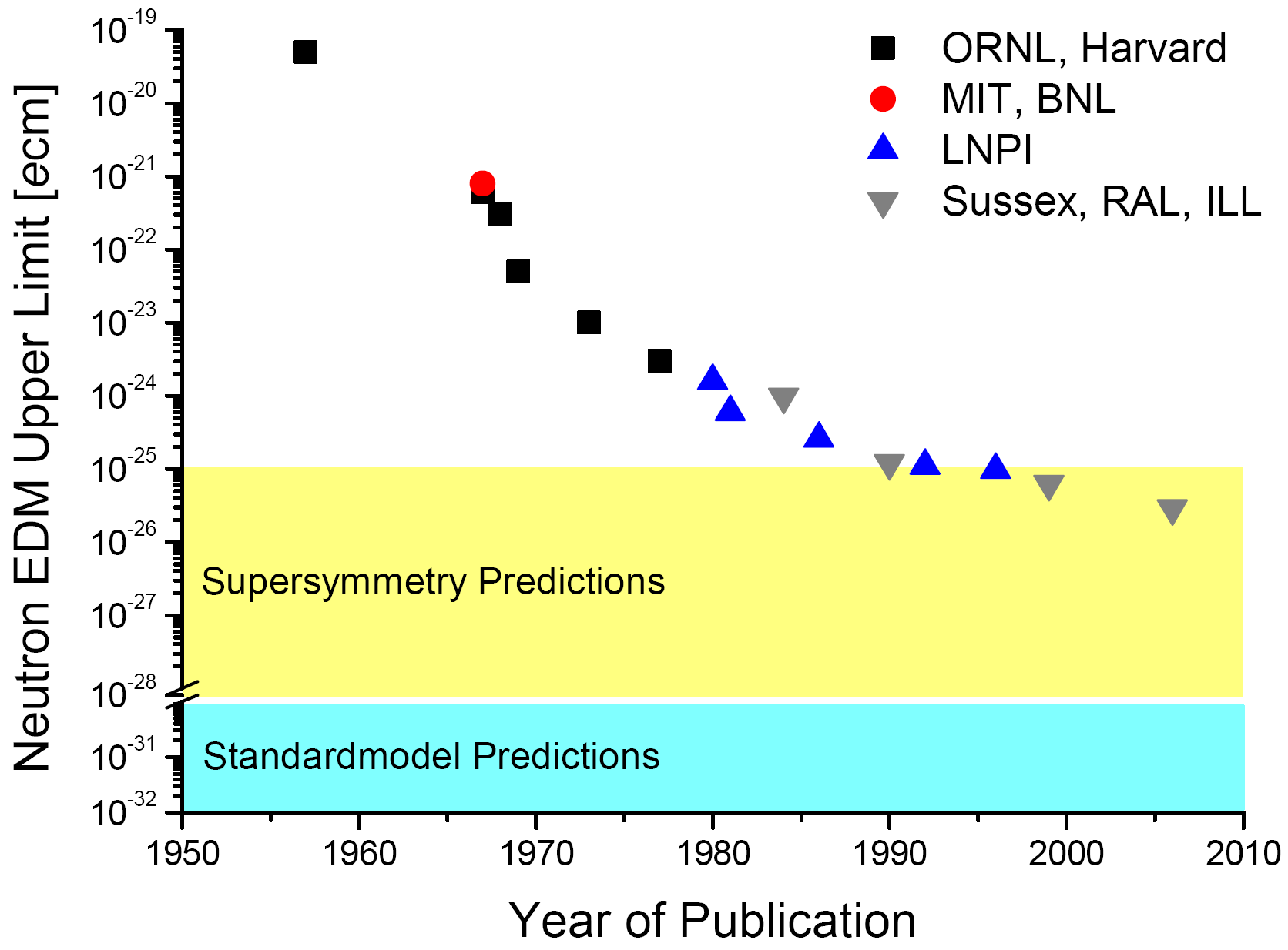 History of the upper limit on the electric dipole moment of the neutron. In addition, the predictions coming from Supersymmetry and the Standard Model are given.